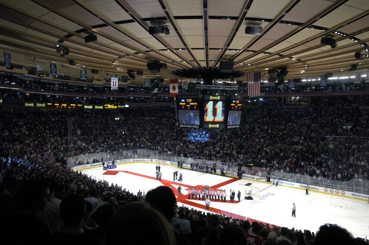 Madison Square Garden before NY Ranger game on Mark Messier night.